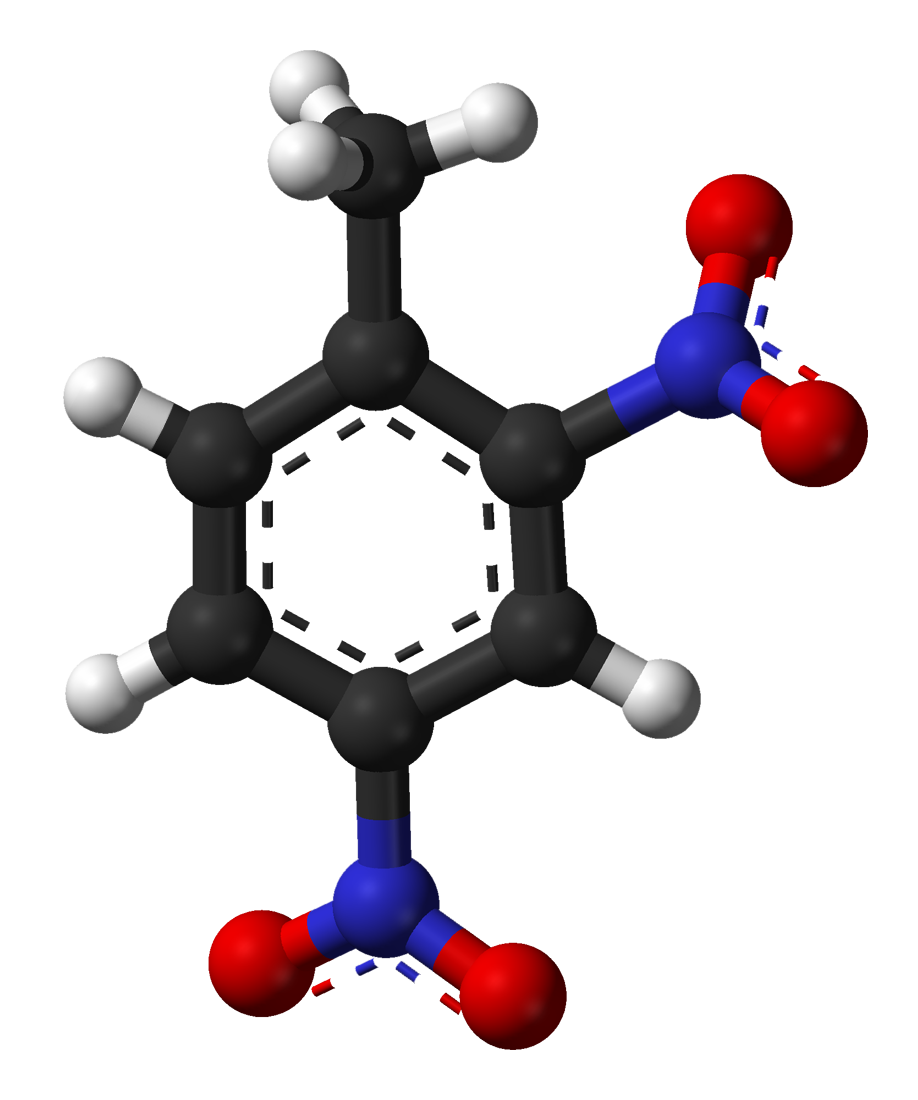 Ball and stick model of the Dinitrotoluene molecule.